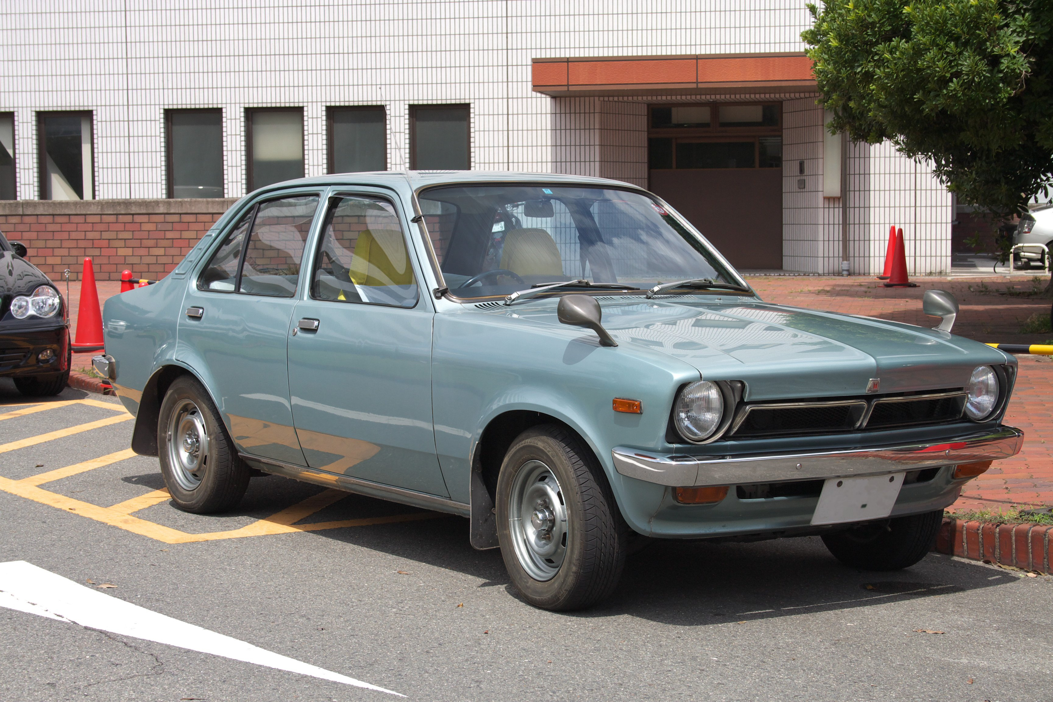 Isuzu Gemini?, photographed in Osaka City,Japan.